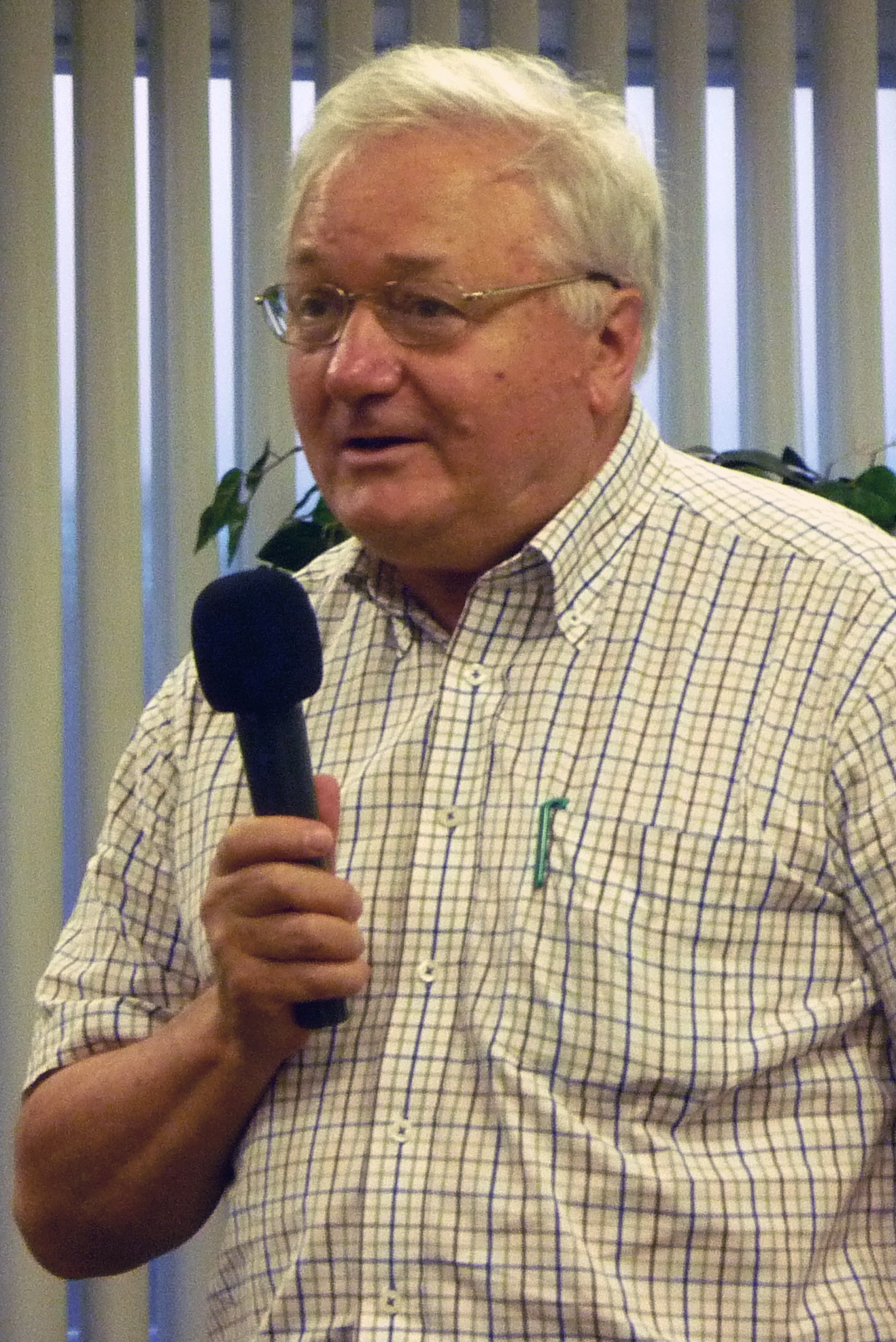 Rashid Sunyaev — russian astrophysicist, a member of the Russian academy of sciences